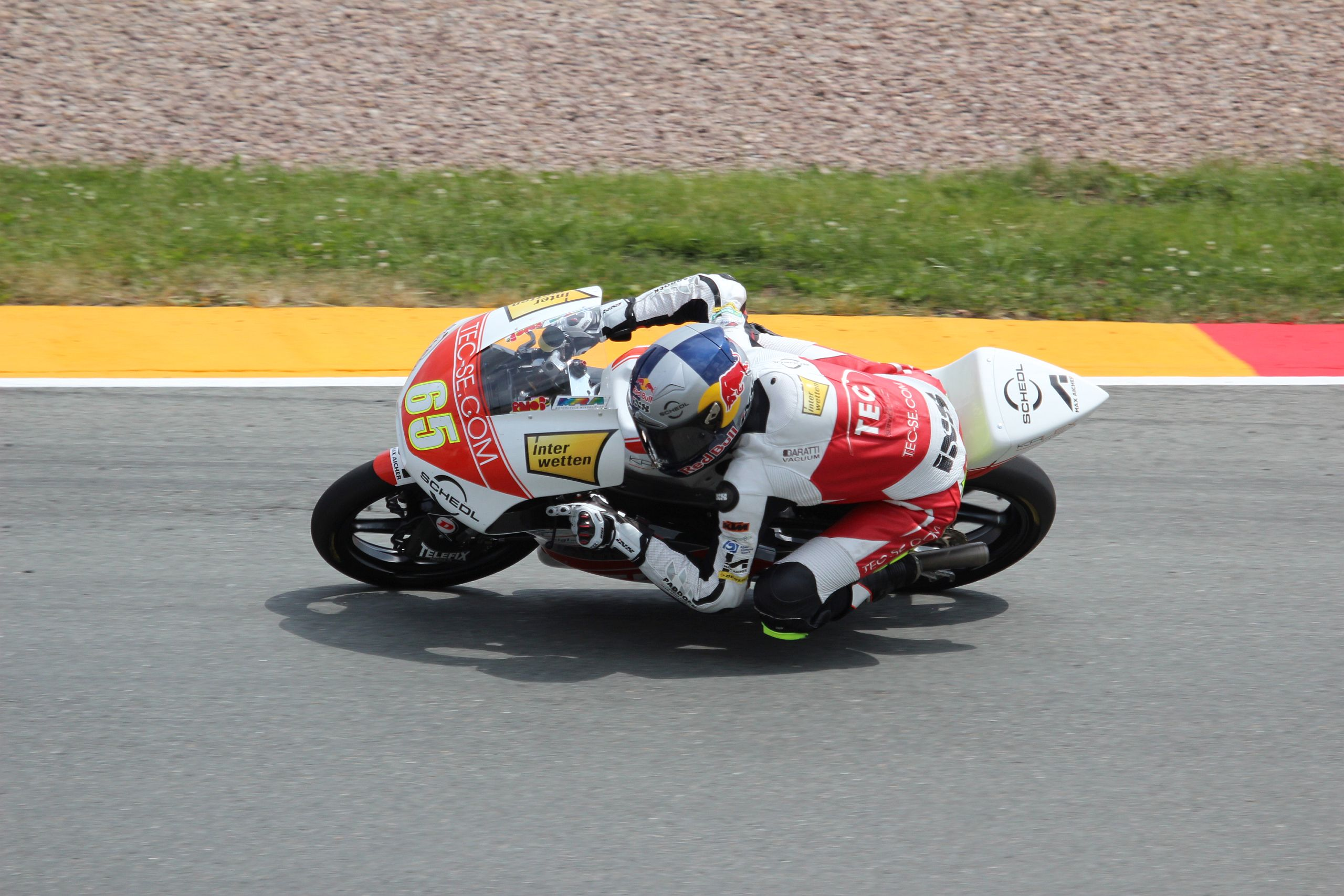 Philipp Öttl at the Sachsenring in 2013, Moto3 World Championship